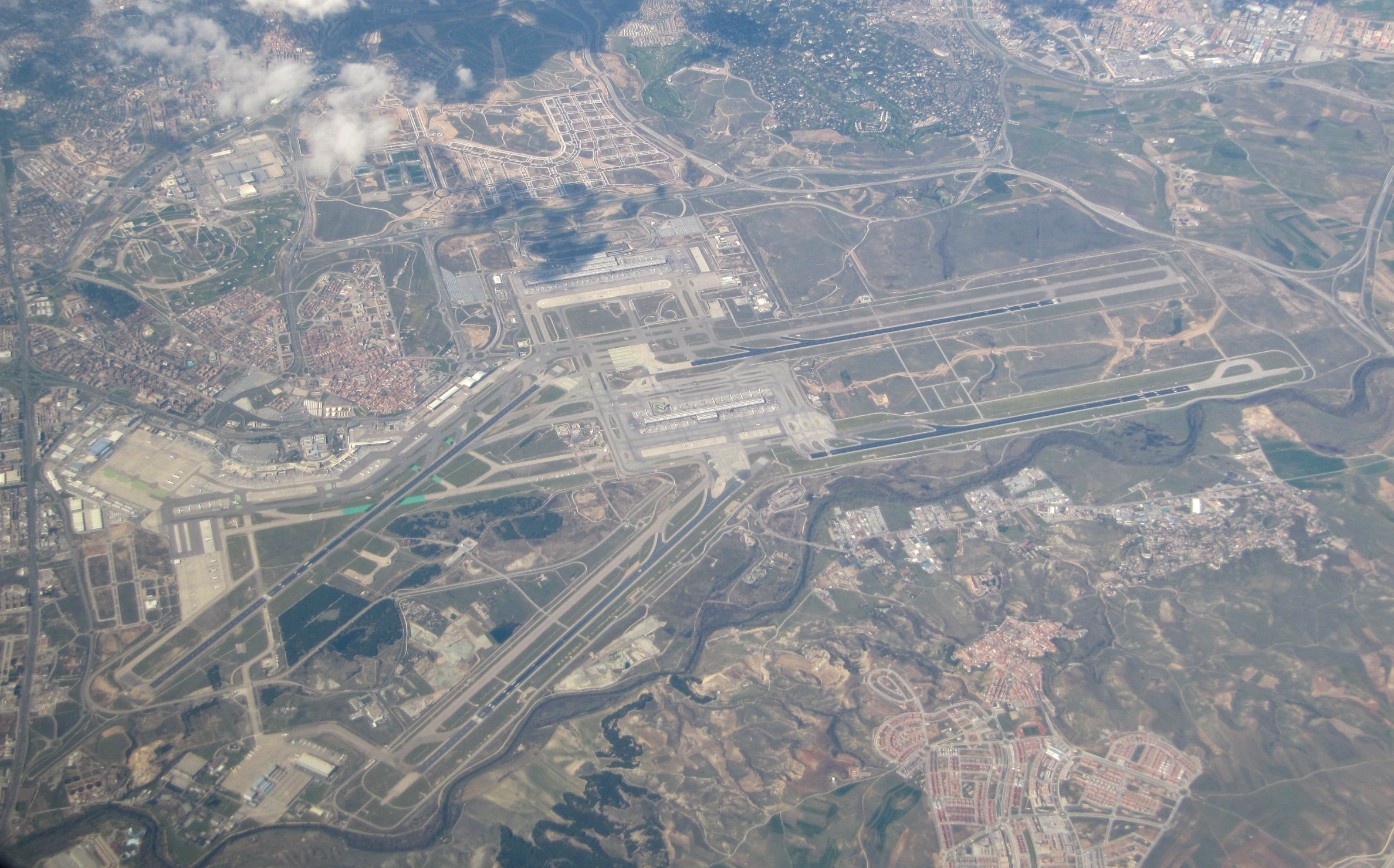 Aerial photograph